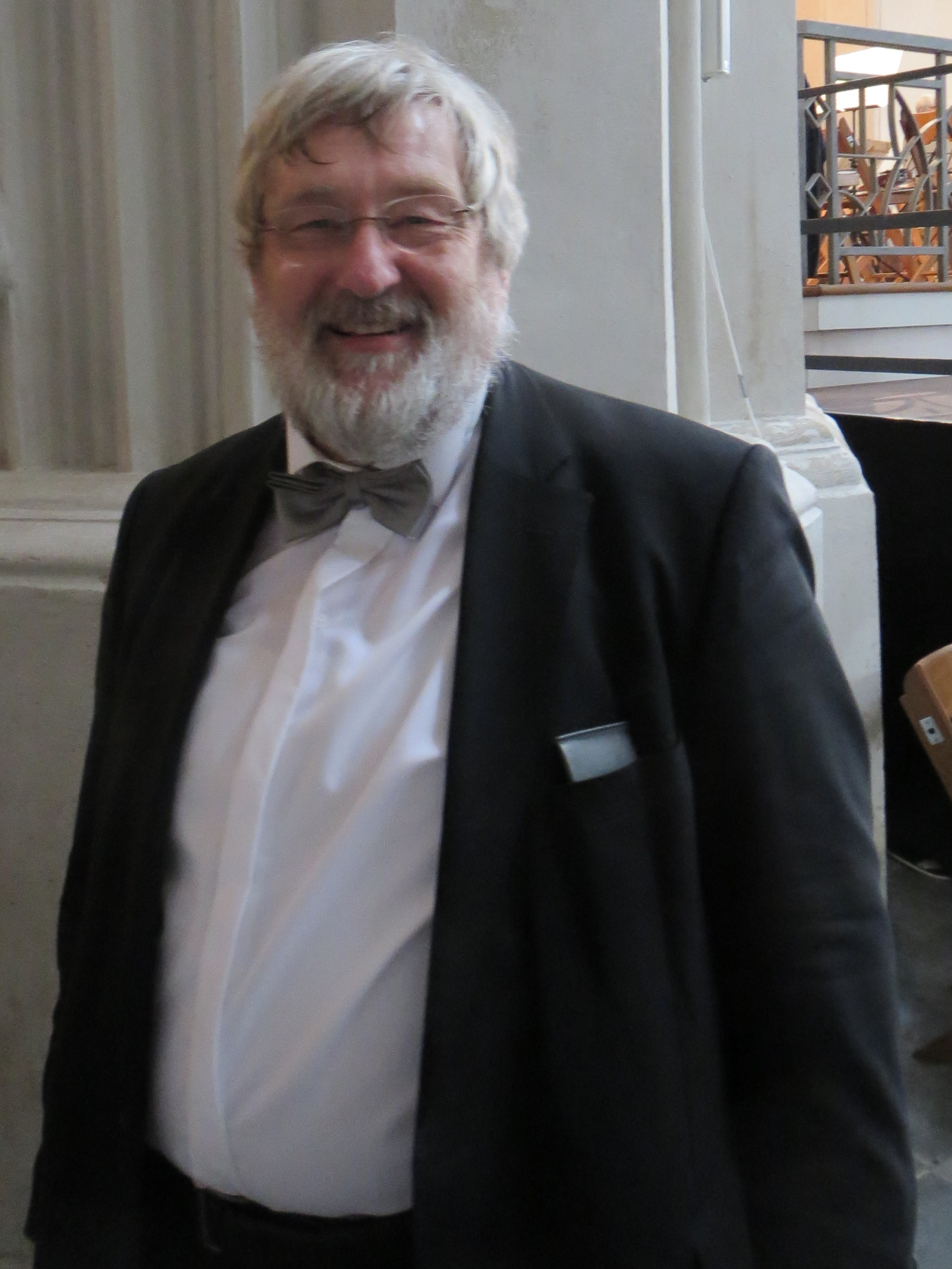 Jochen A. Modeß during Bachwoche 2014 in Greifswald